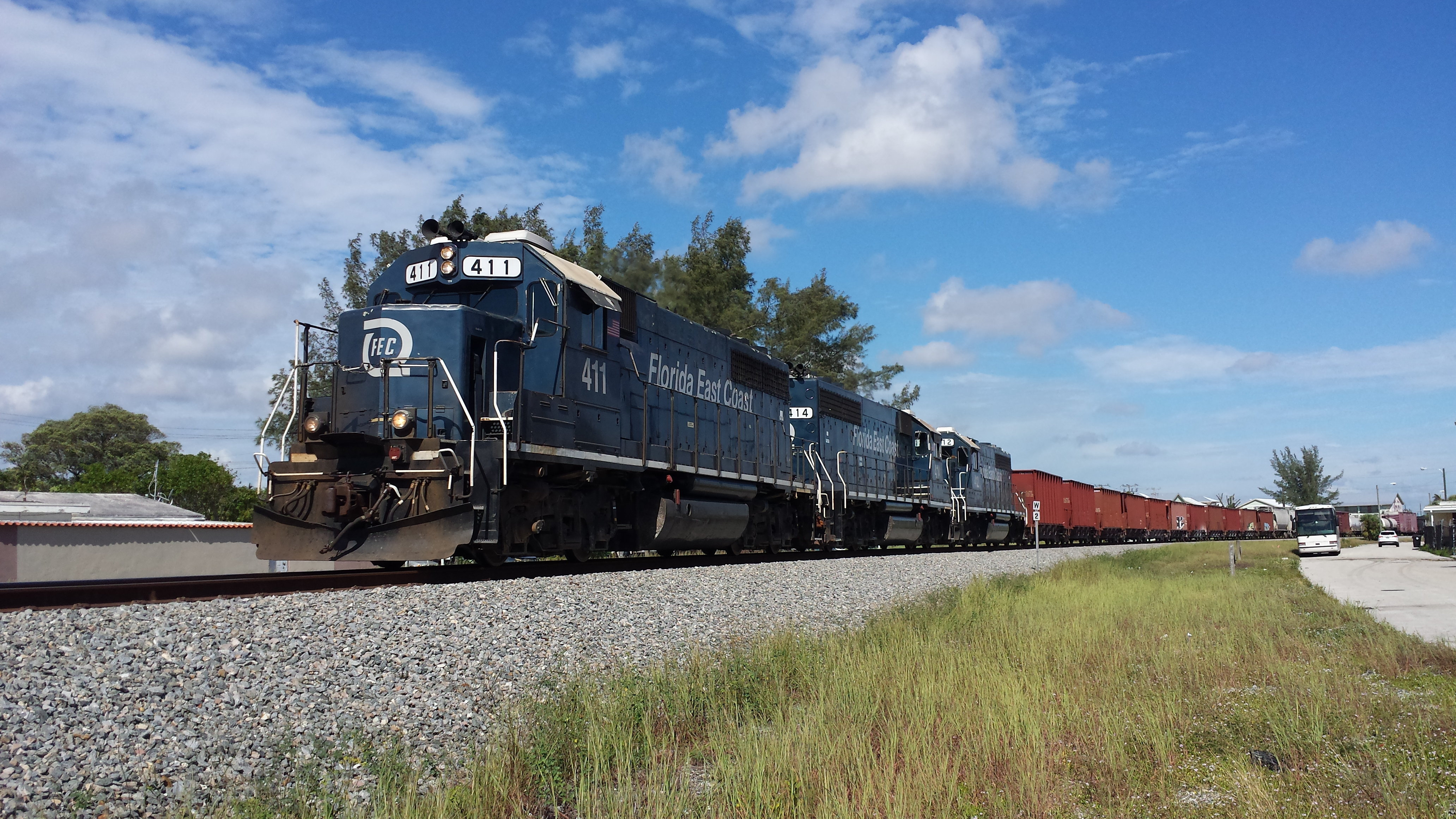 Three GP40-2s lead a southbound train through Lake Worth, FL. This is a classic scene on the FEC